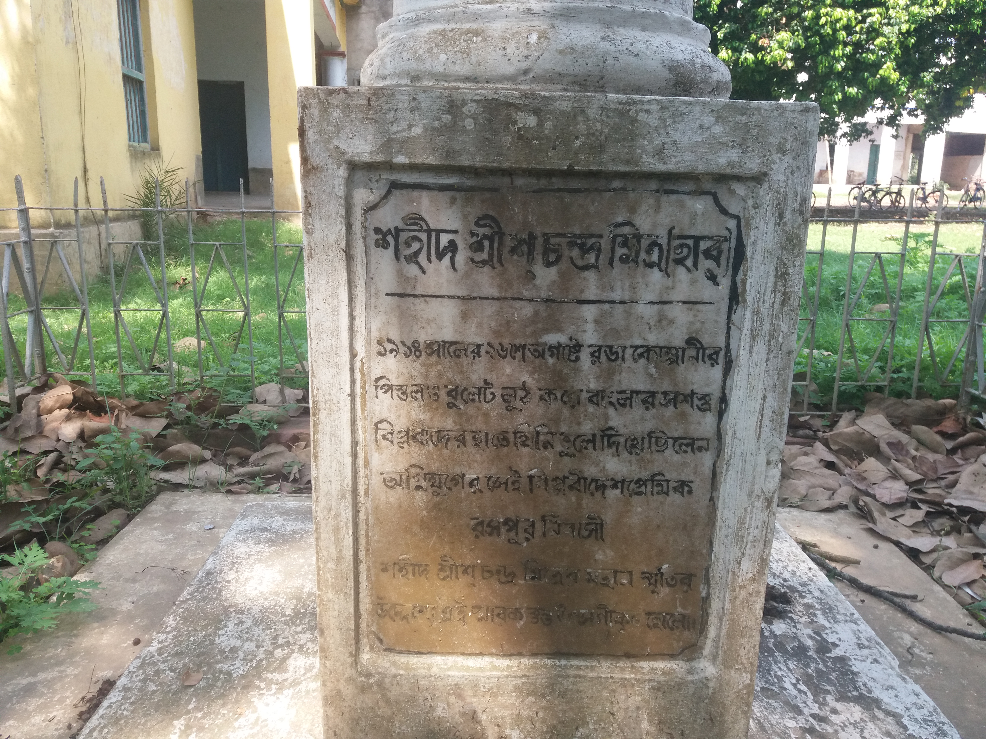 The Martyr Memorial, built at Raspur village in memory of Shrish Chandra Mitra, Amta - Howrah